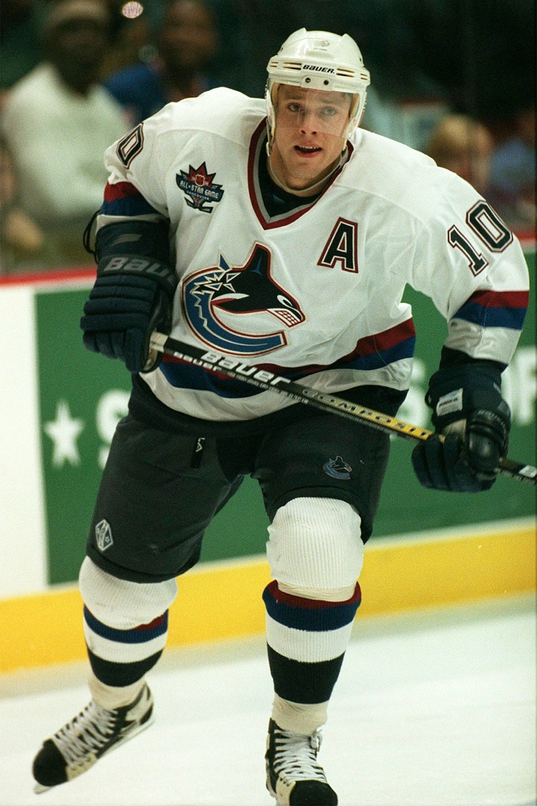 Pavel Bure, October 1st, 1997